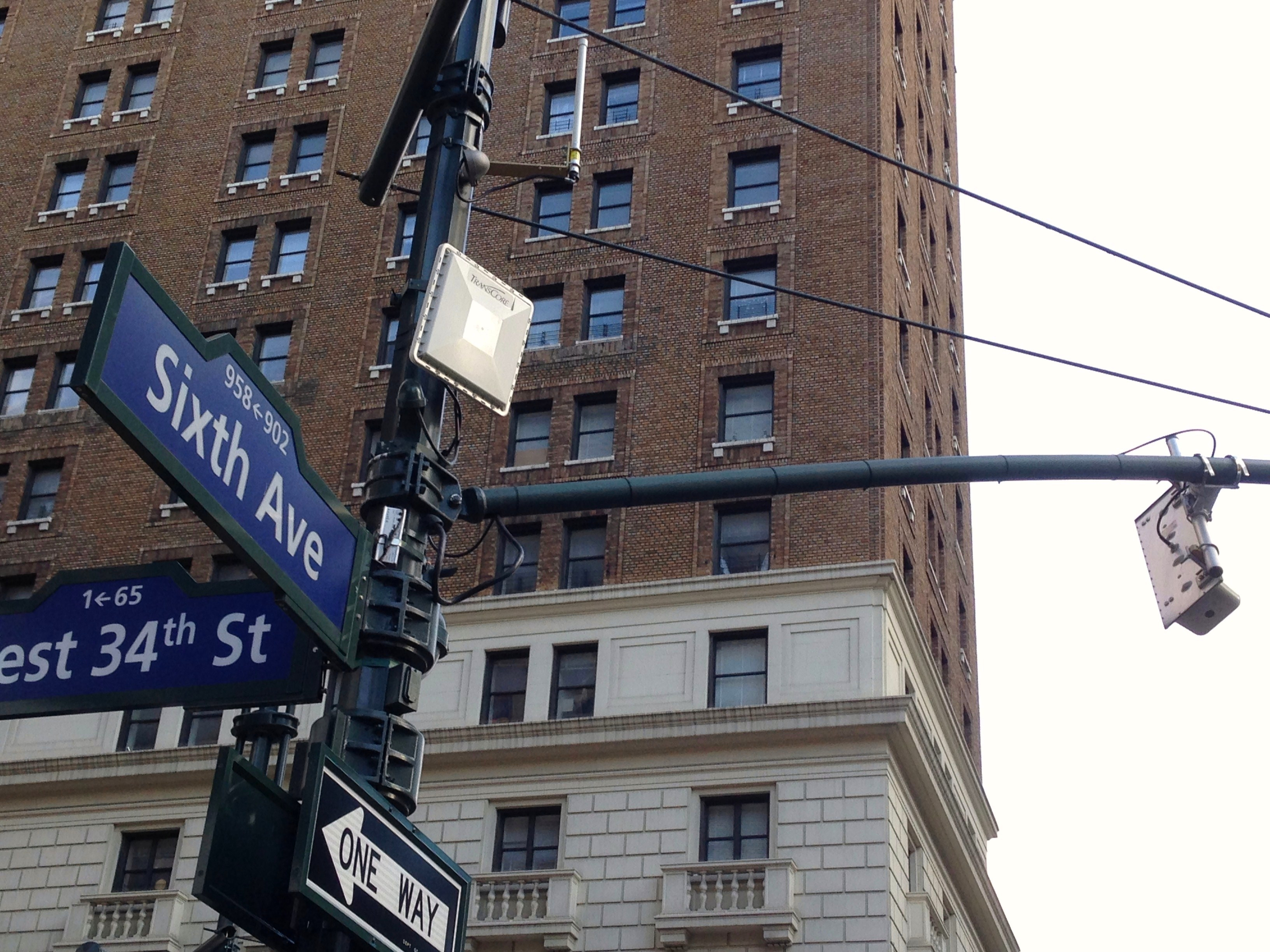 TransCore radio-frequency identification (RFID) reader and antenna. The E-ZPass reader (Encompass 4) is the square device attached to the pole. It also uses horizontally polarized panel antenna (model AA3110-101) on the right to broadcast and receives radio frequency signals to detect E-ZPass tags.